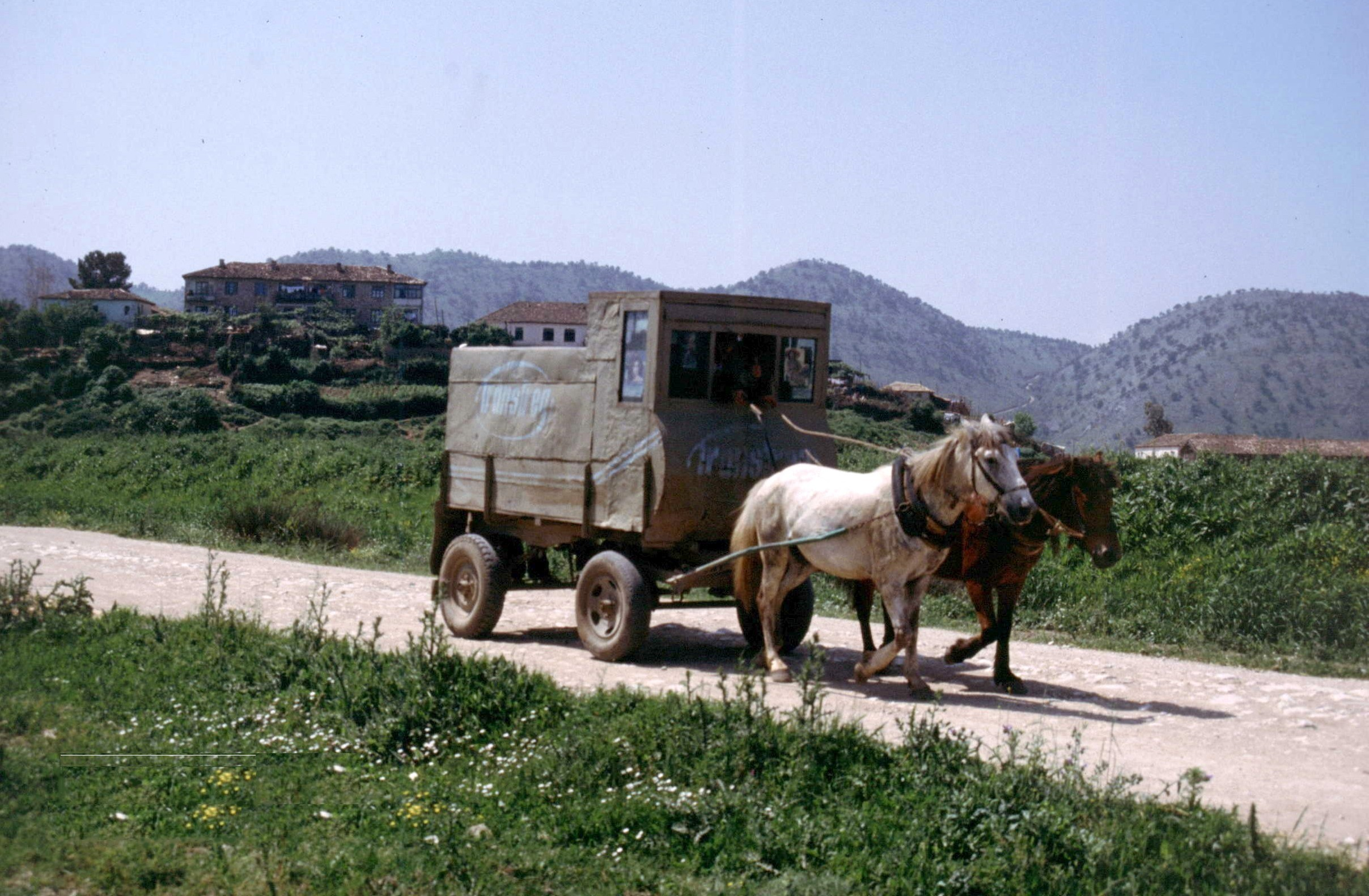 Meeting by a special verhicle on the plain of Vrine. Picture taken in May, 1991